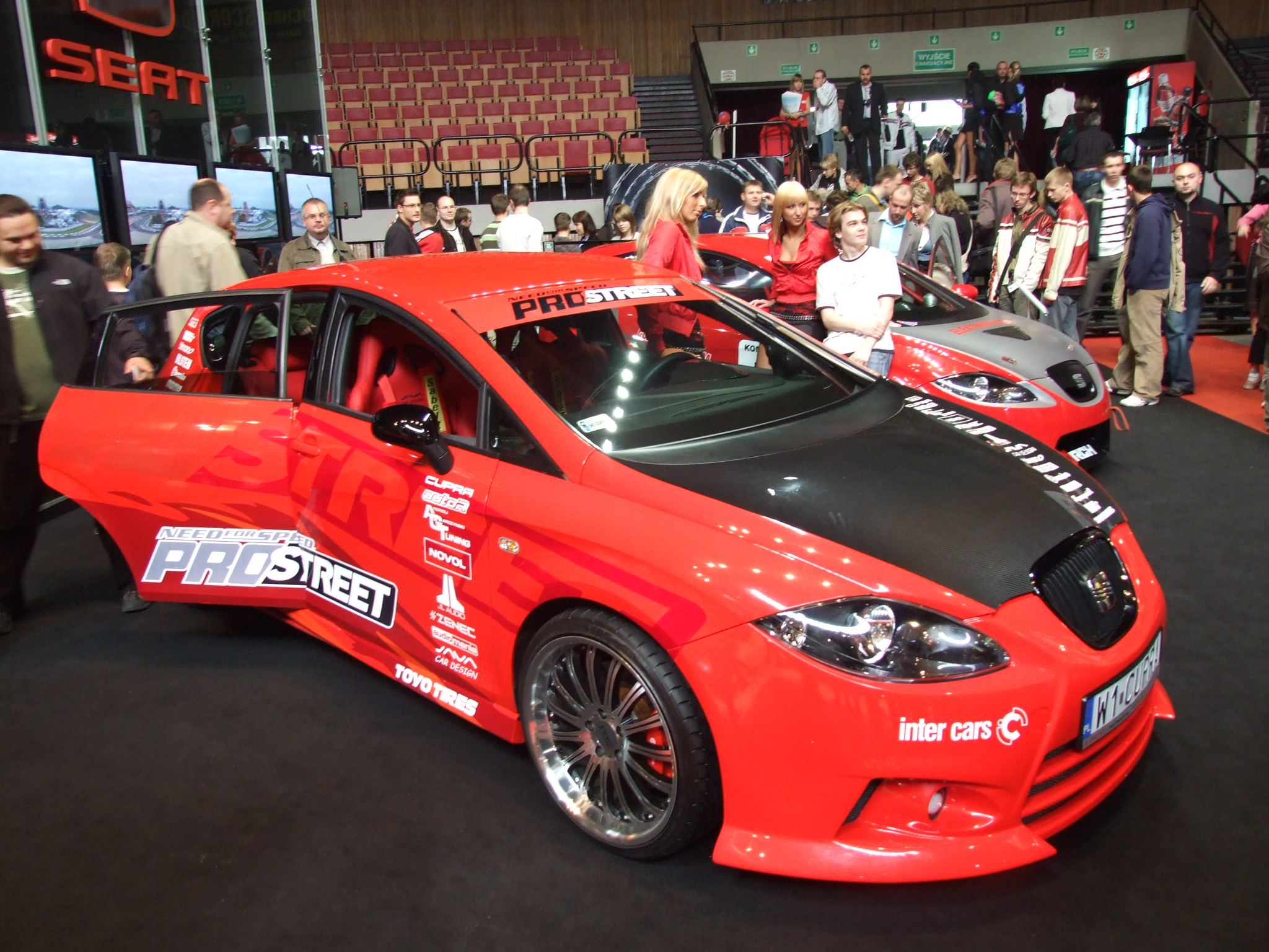 Need for Speed: Pro Street Seat Leon Cupra at Auto Moto Show 2008 in Katowice